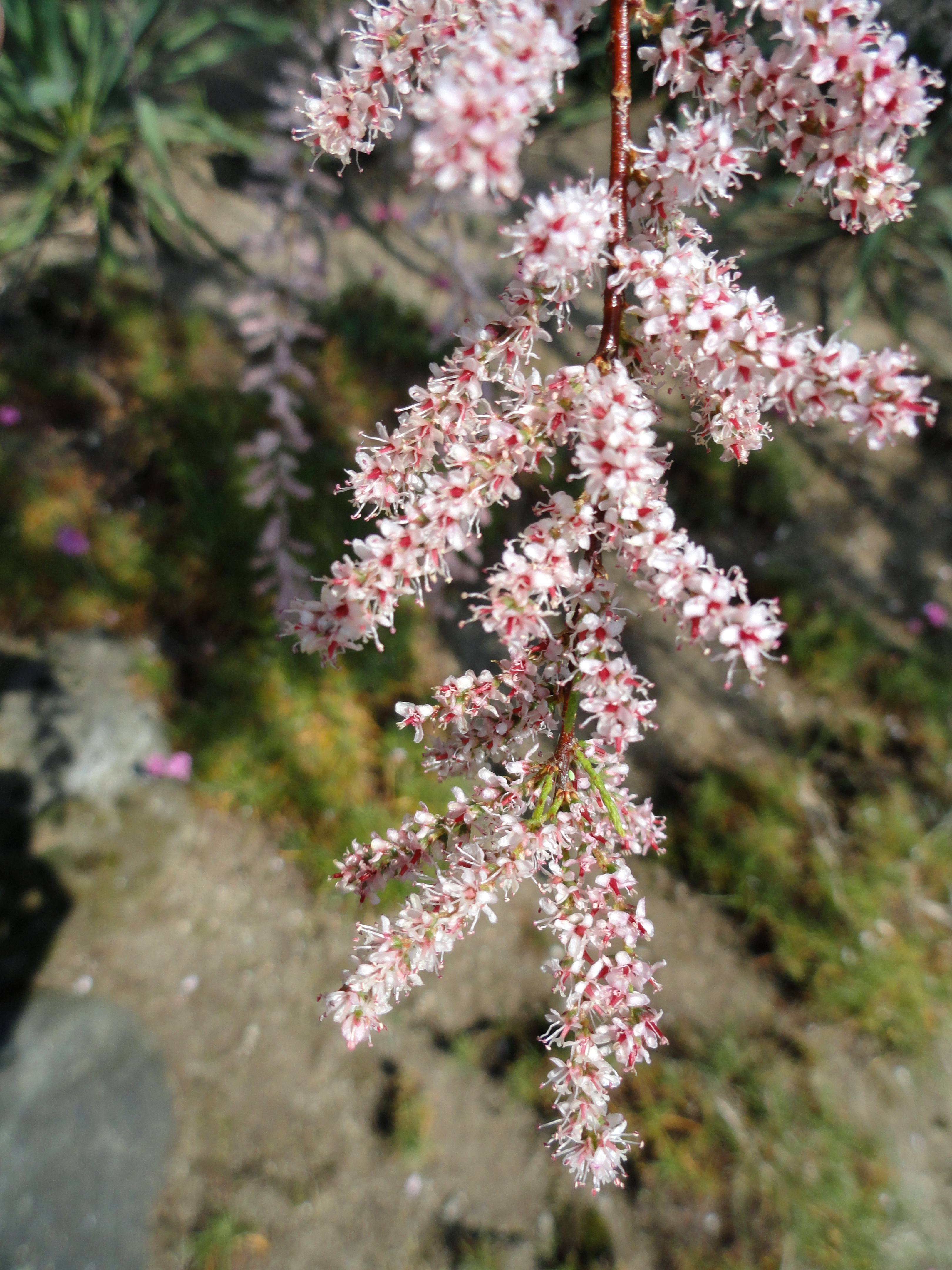 Tamarix gallica. Botanical specimen on the grounds of the Villa Taranto (Verbania), Lake Maggiore, Italy.